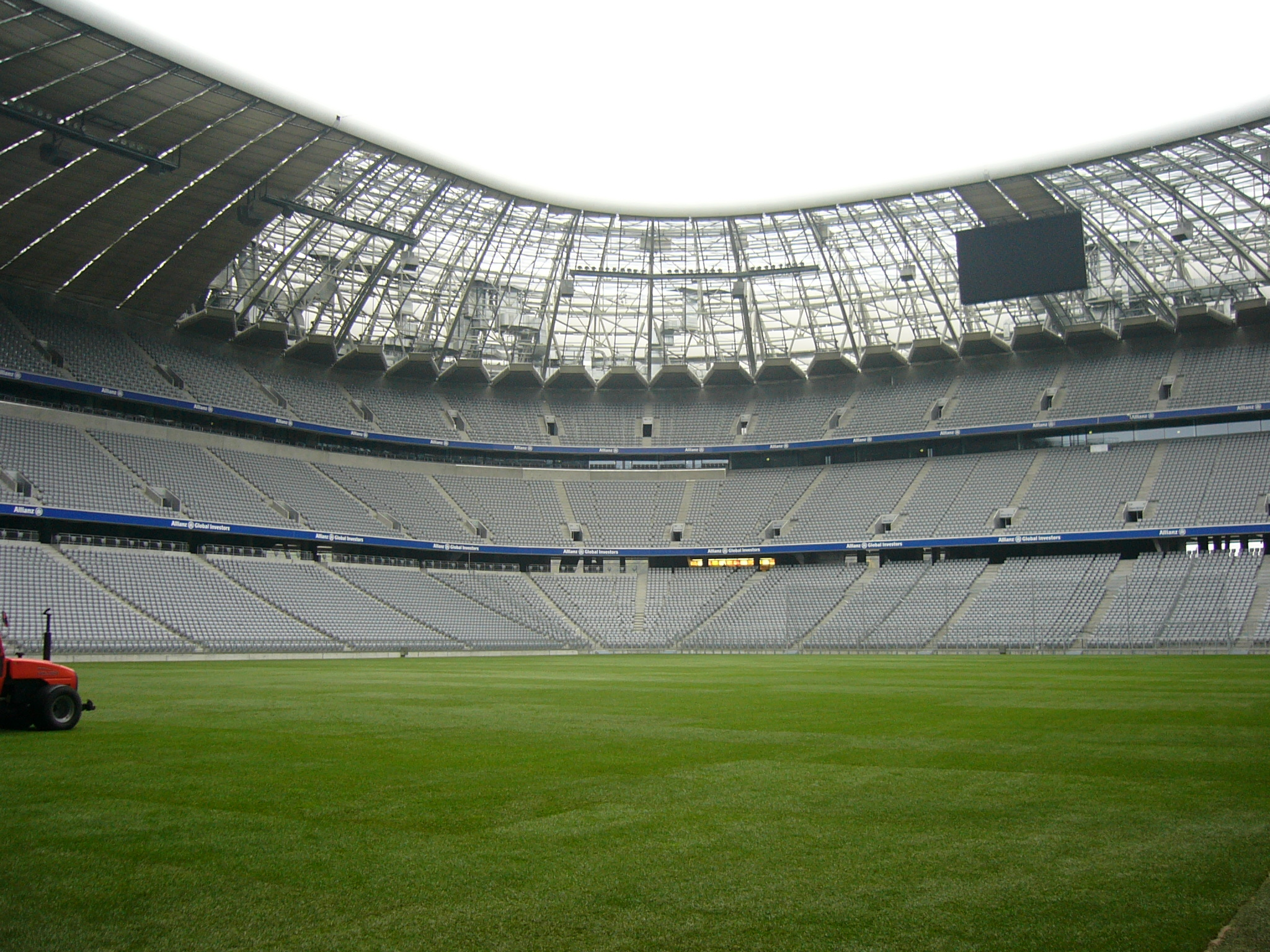 Allianz Arena in München, Germany — inside view, meadow with seats (level 1 to 3) and roof, seen southward